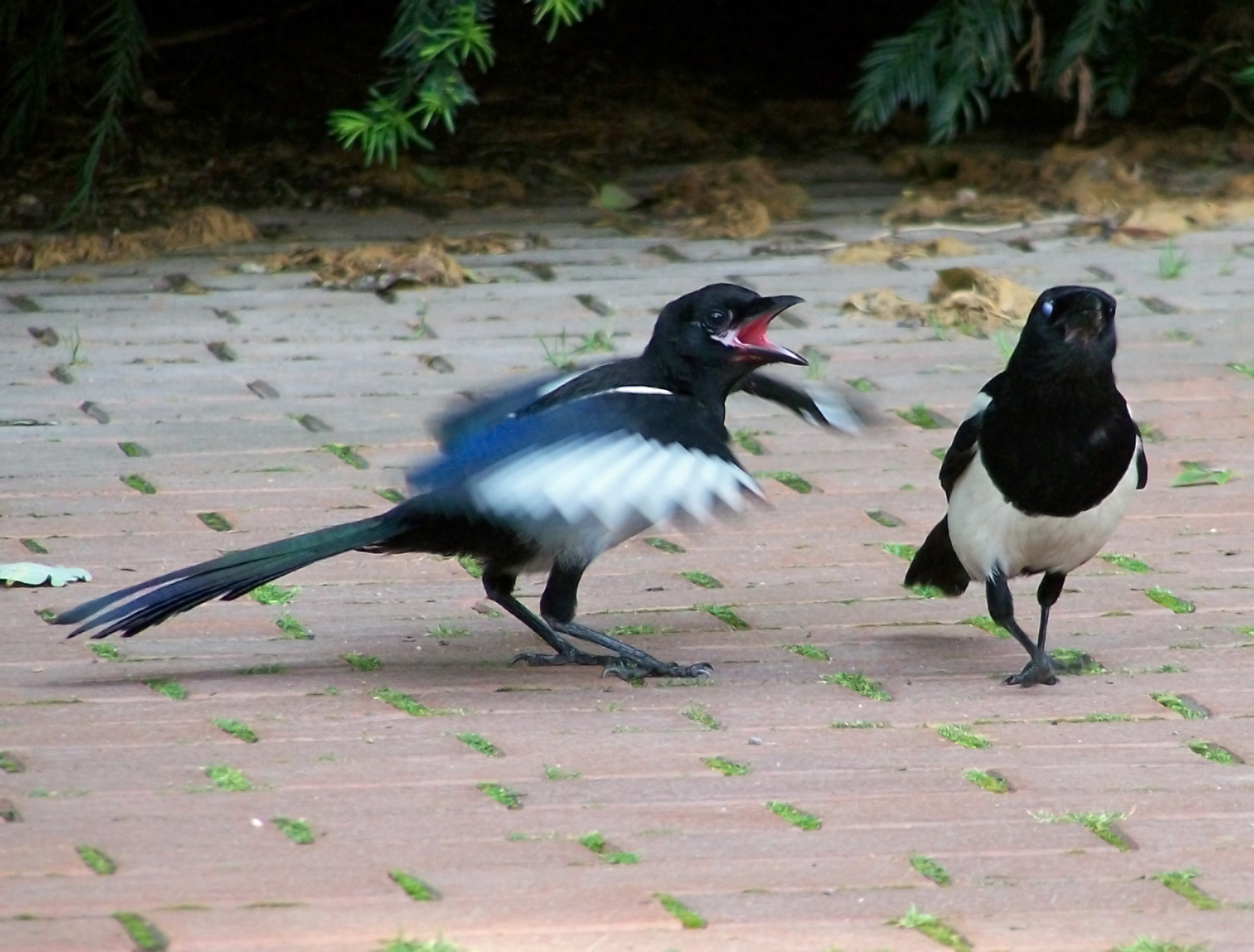 A Magpie chick is begging the mother for food.